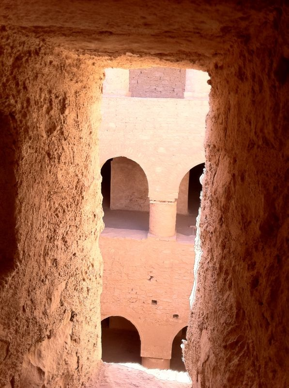 Abbasid palace/Fortress of Ukhaider near Karbala, Iraq. Built in 775 AD